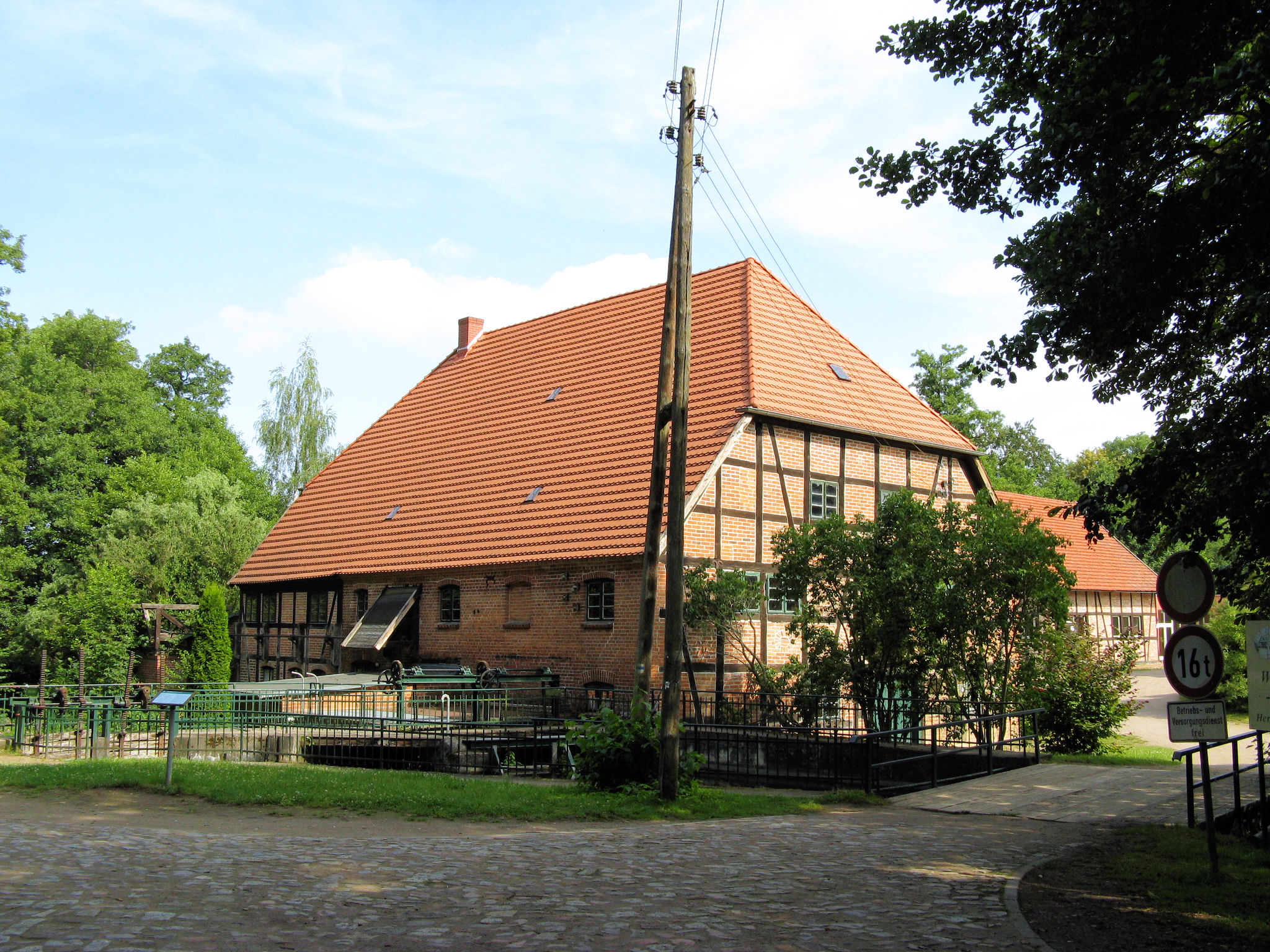 Watermill at Nebel river in Kuchelmiß, disctrict Rostock, Mecklenburg-Vorpommern, Germany